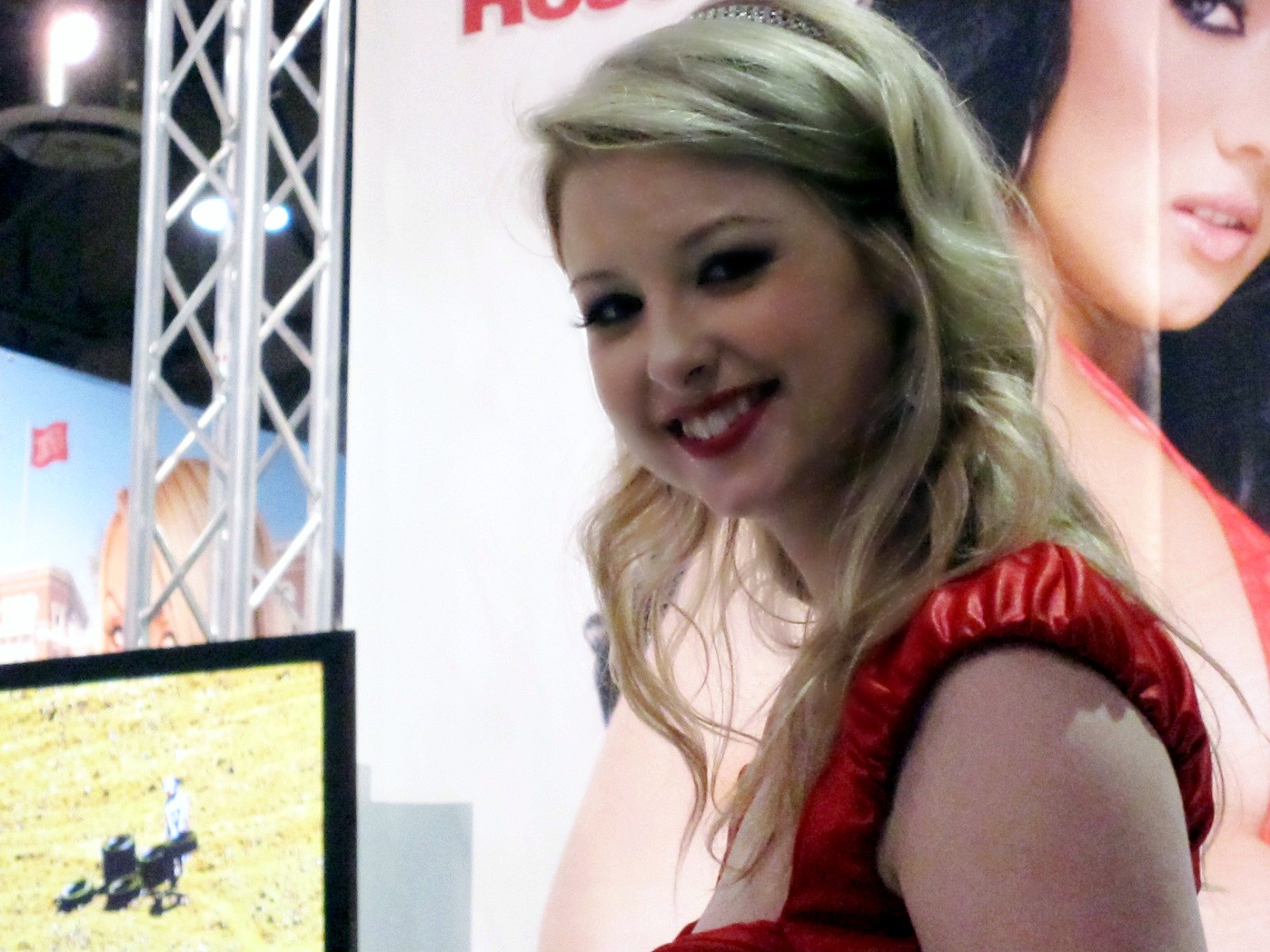 Sunny Lane Giving Me a Quick Smile at the Elegant Angel Booth.